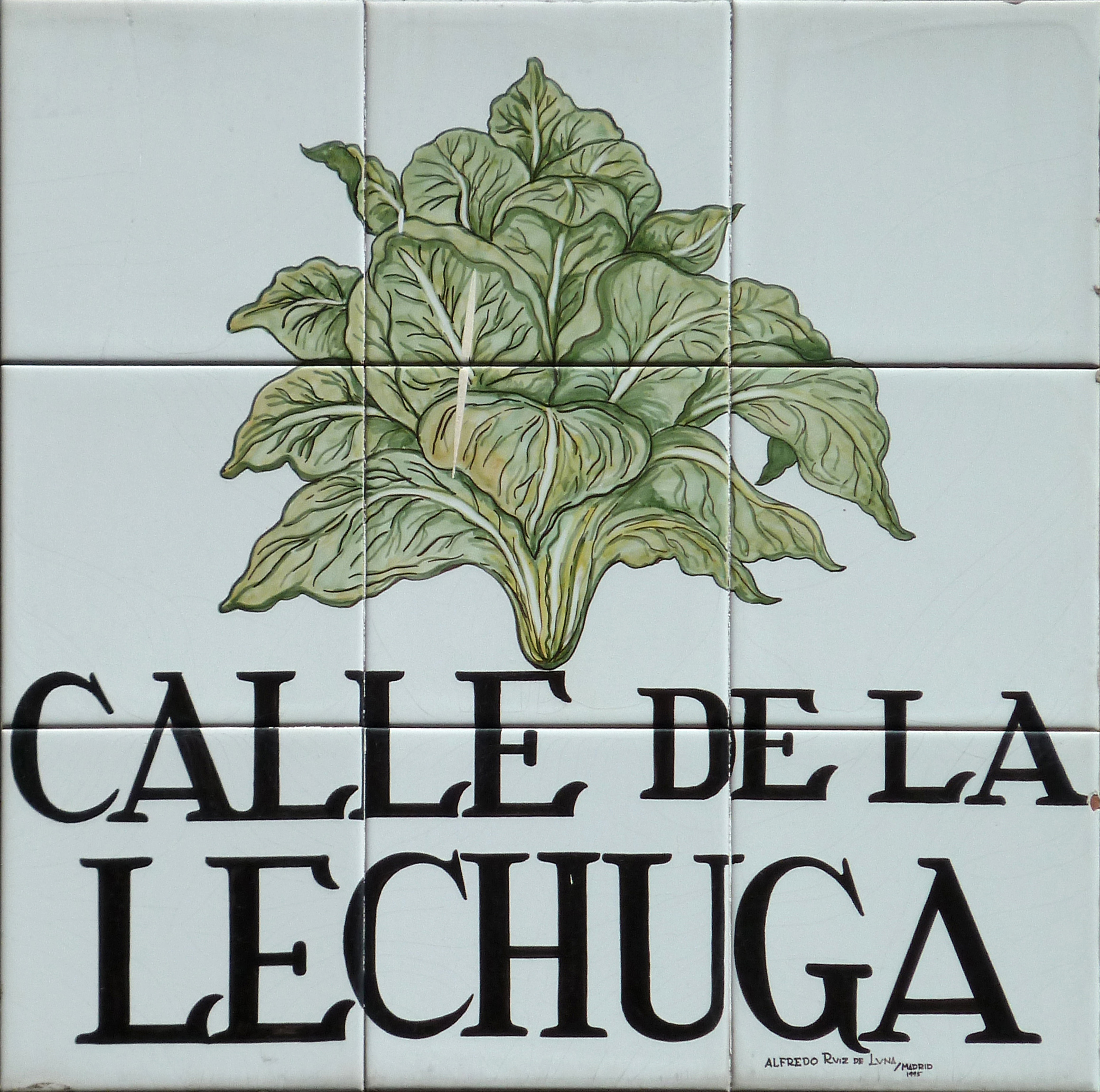 Sign of Calle de la Lechuga (street) in Madrid (Spain).